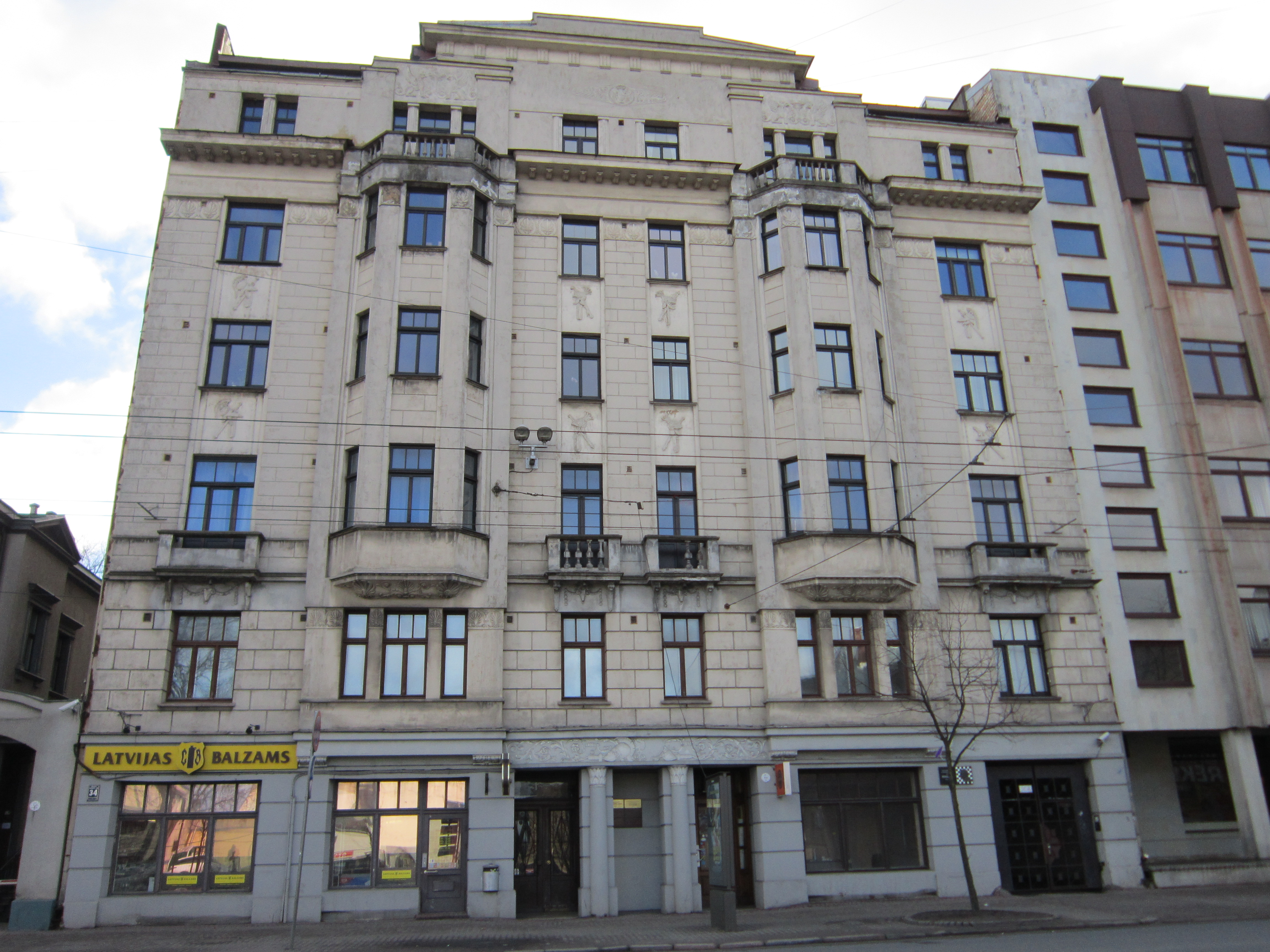 In this house in Riga lived Mikhail Tal